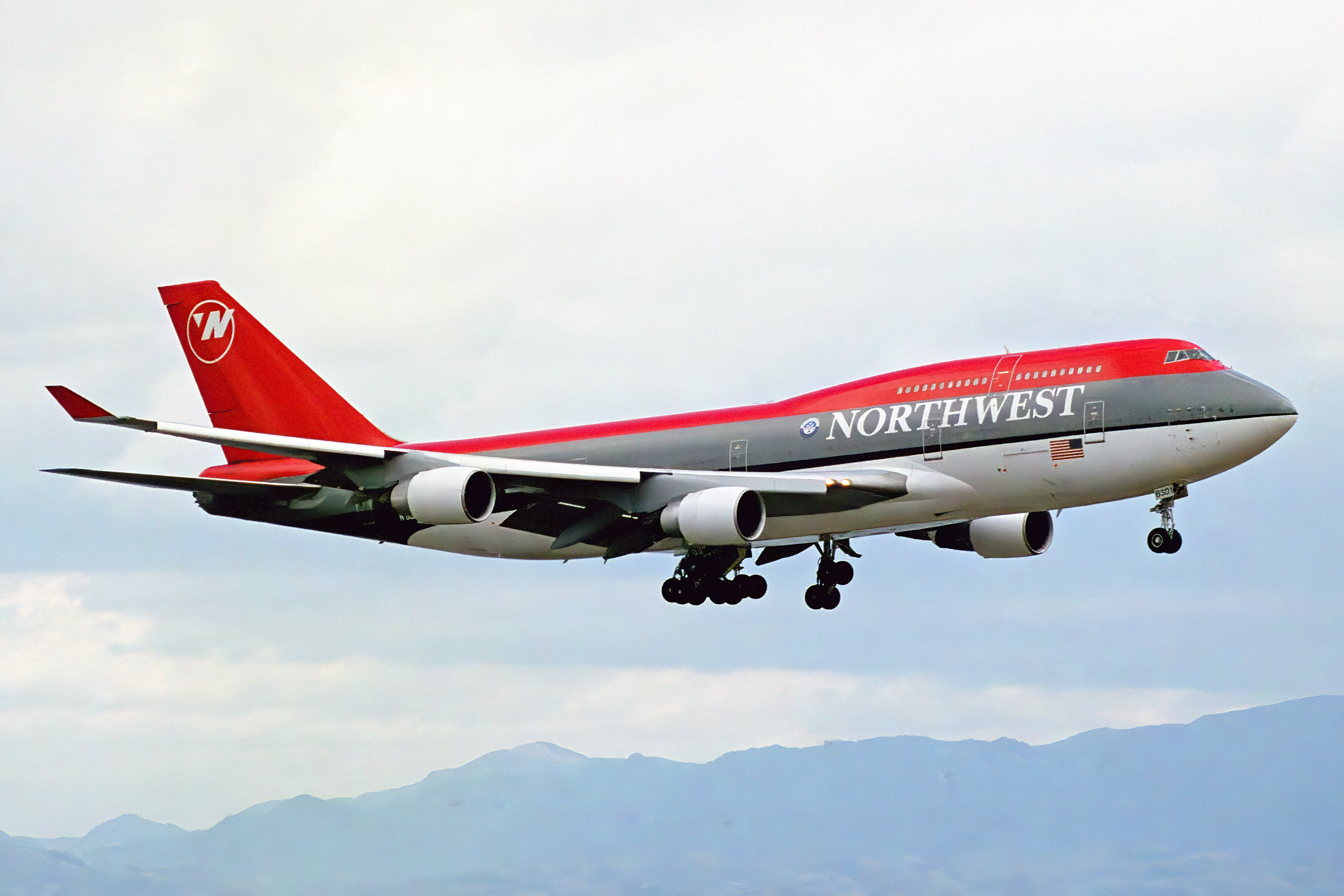 Initially registered N401PW, the first Boeing 747-400 in the world arrives Osaka. This aircraft is officially retired on 9 Sep 2015 after Delta Flight 836 from Honolulu to Atlanta.